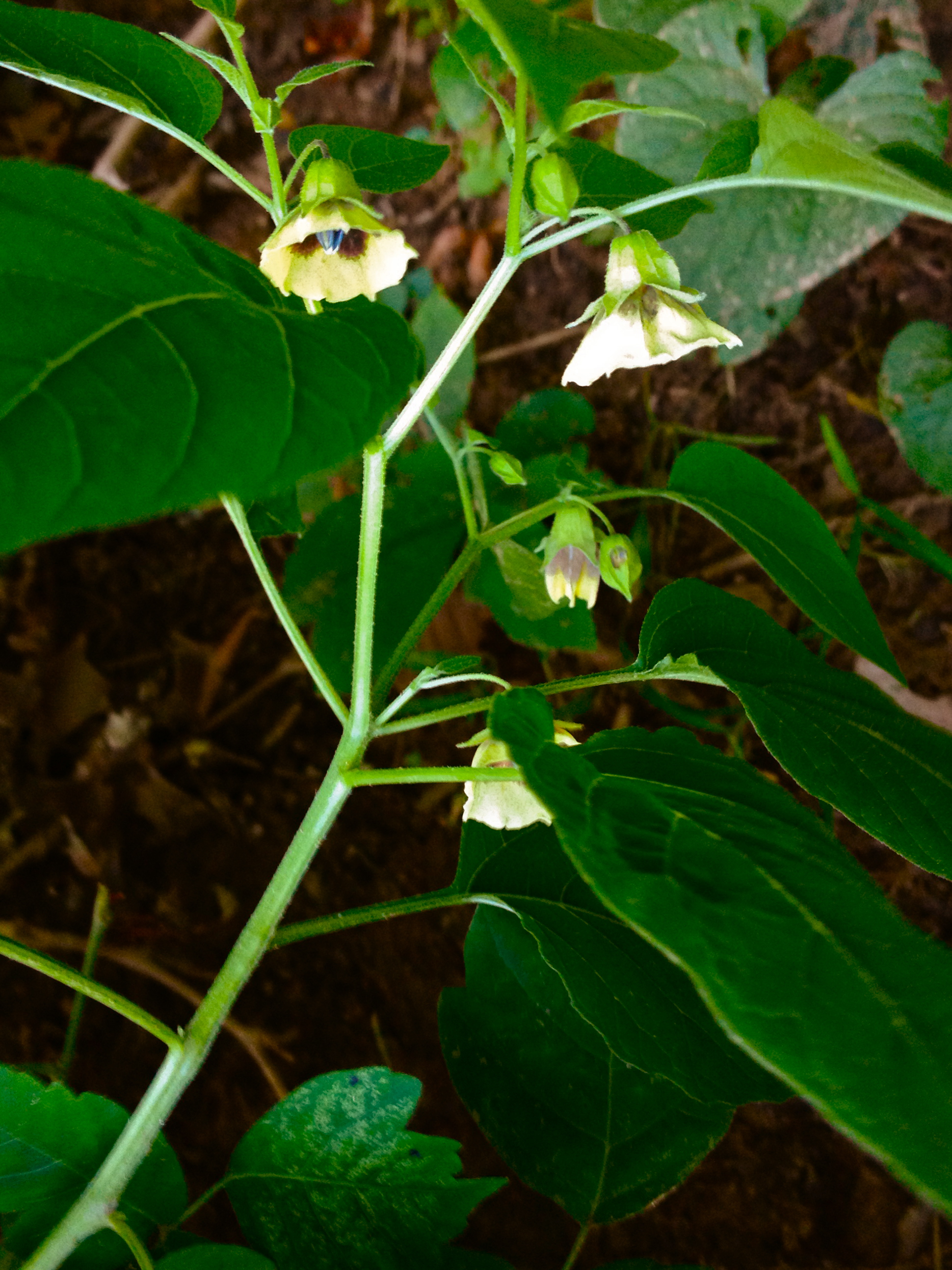 Photo of Physalis longifolia in flower. This is a native plant growing wild in River Bend Park, Fairfax county Virginia, USA. This species is a member of the Solanaceae family.